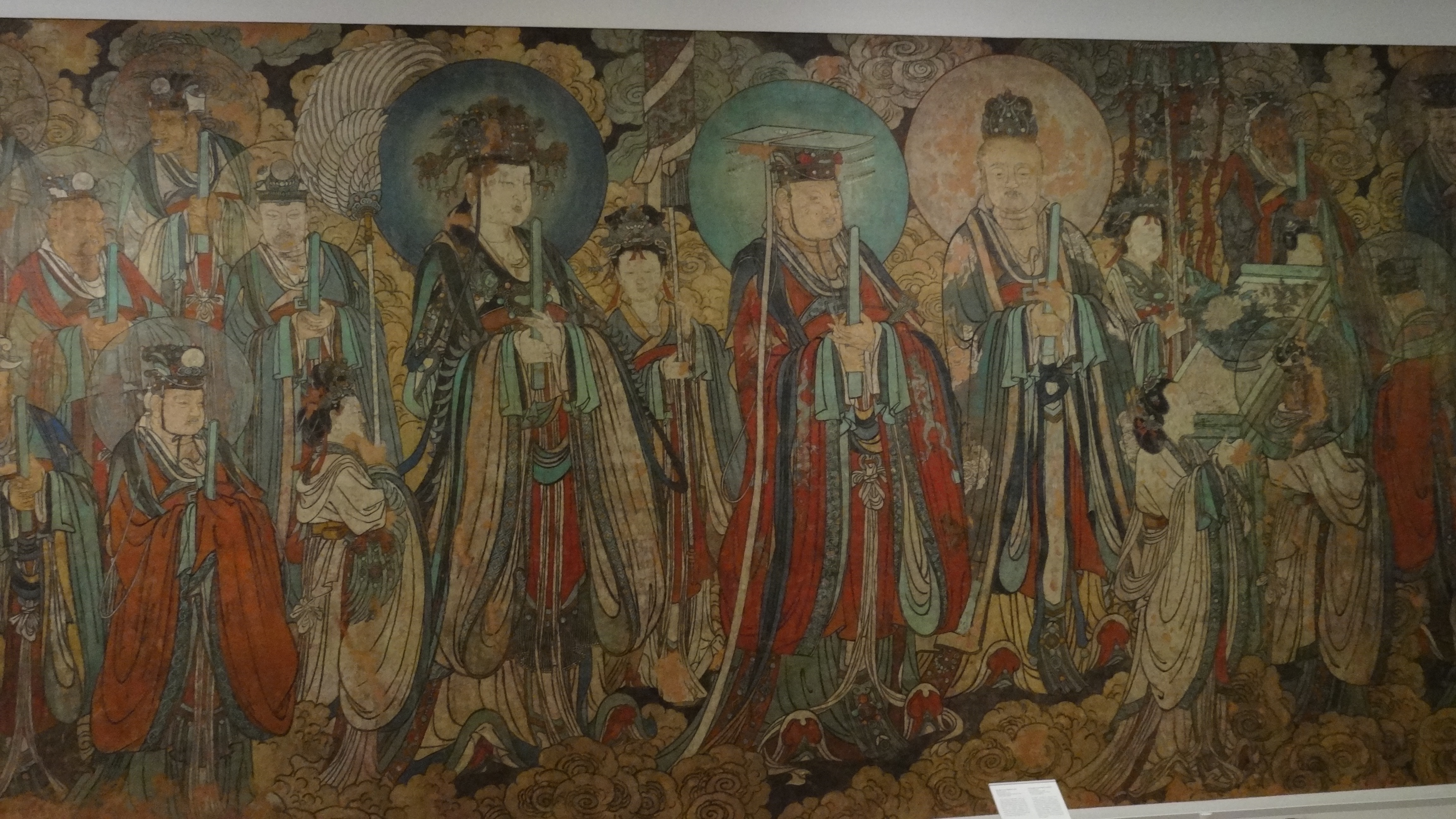 painted mural panel